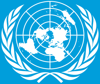 Logotype of the flag of the United Nations.